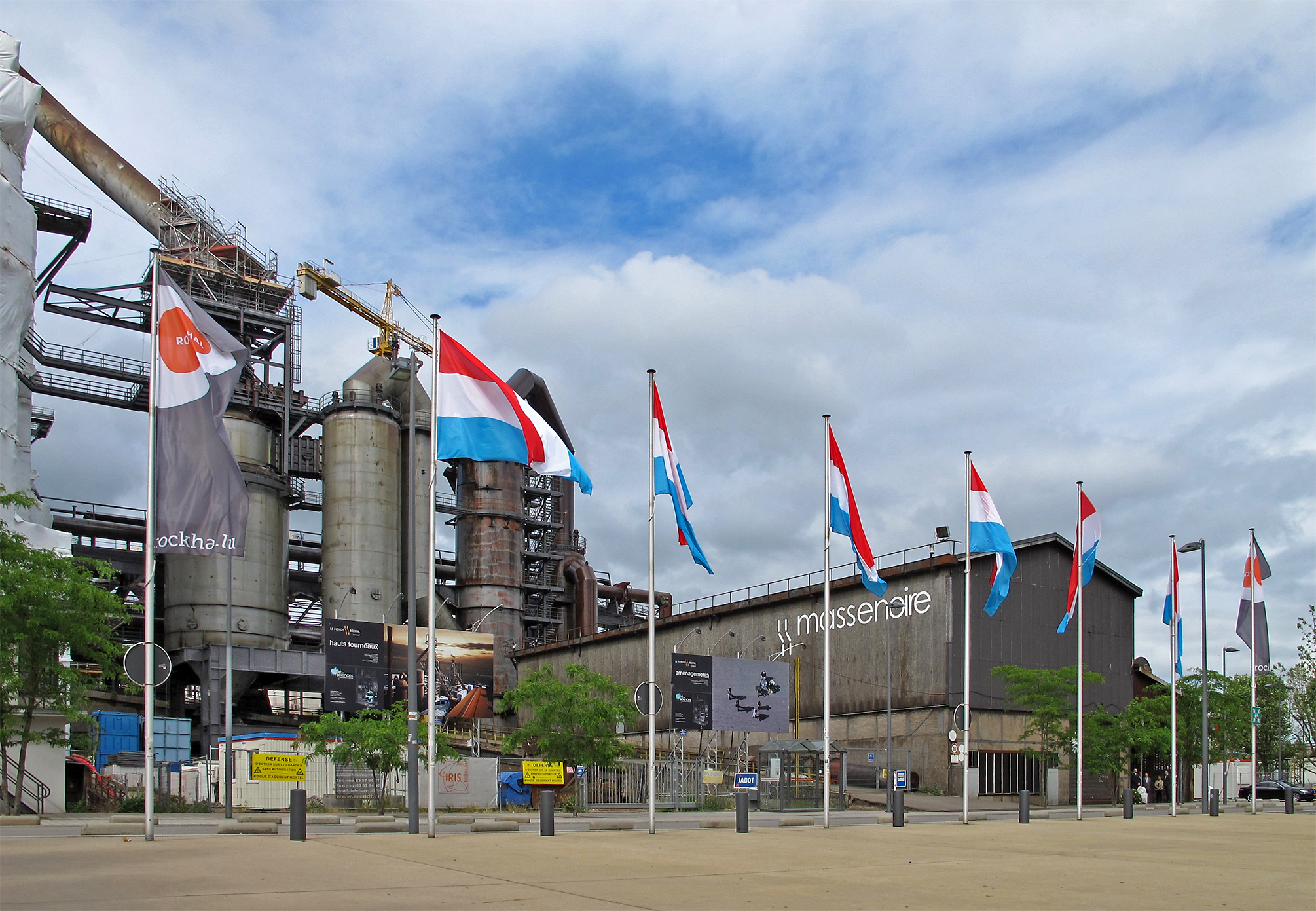 The blast furnaces of Belval on national holiday